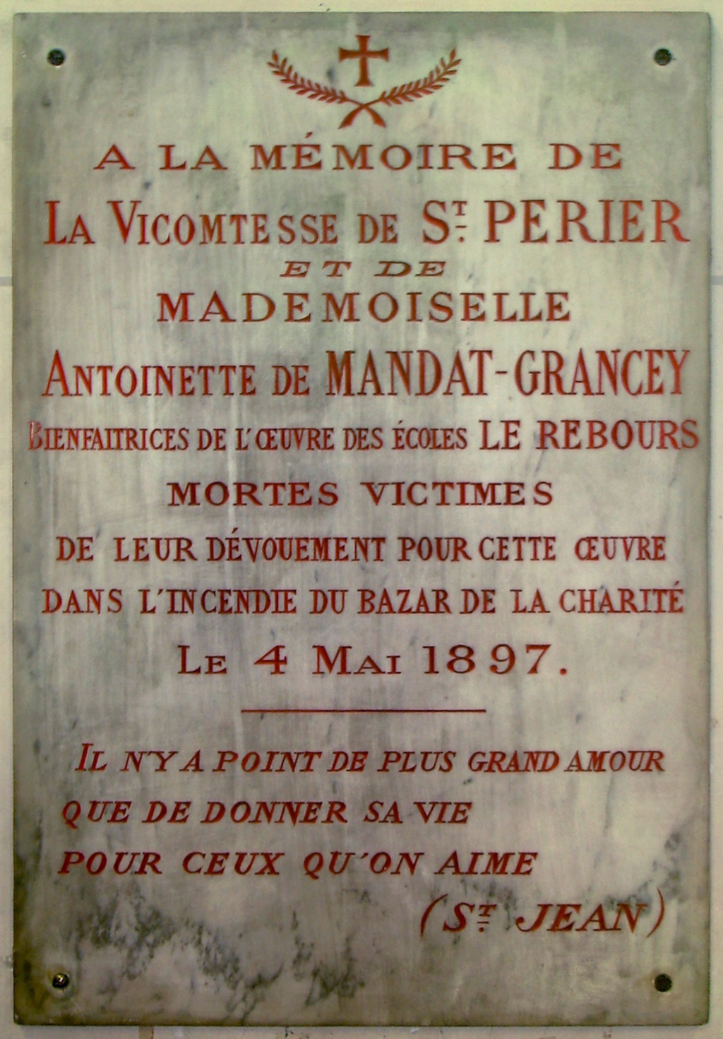 Église Sainte-Rosalie, boulevard Auguste-Blanqui, Paris XIIIe arrondissement. Commemorative plaque for the death of two ladies of the French gentry [la Vicomtesse de Saint-Perier and Mademoiselle Antoinette de Mandal-Grancey], in the fire of the Bazar de la Charité in Paris in 1897, which cost the life of more than 130 people, mostly women of the French nobility, including the sister of Elisabeth, empress of Austria.